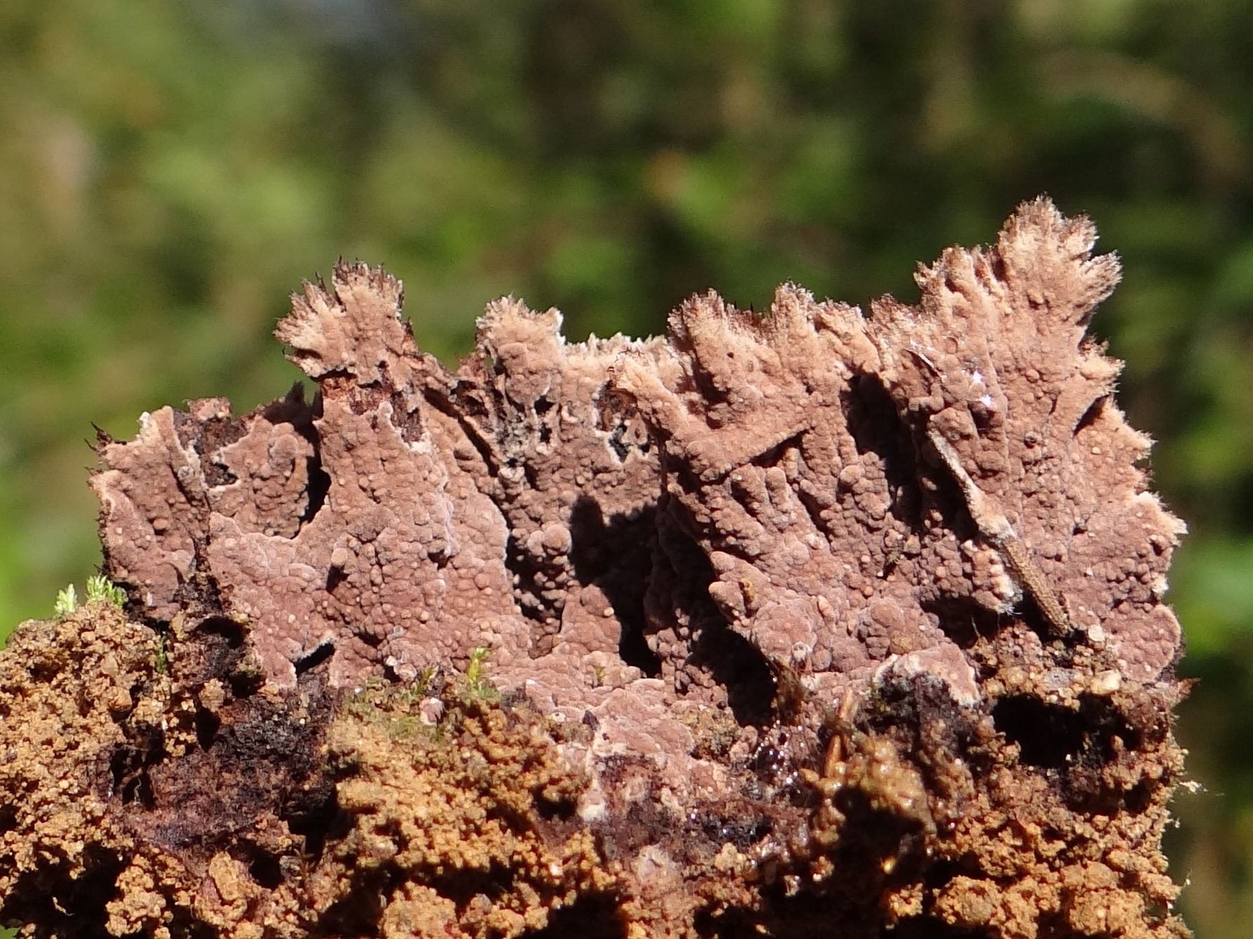 Thelephora terrestris (hymenofor)